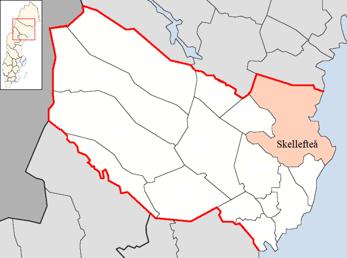 Skellefteå Municipality in Västerbotten County Designed by me. Mere outlines are a PD source from